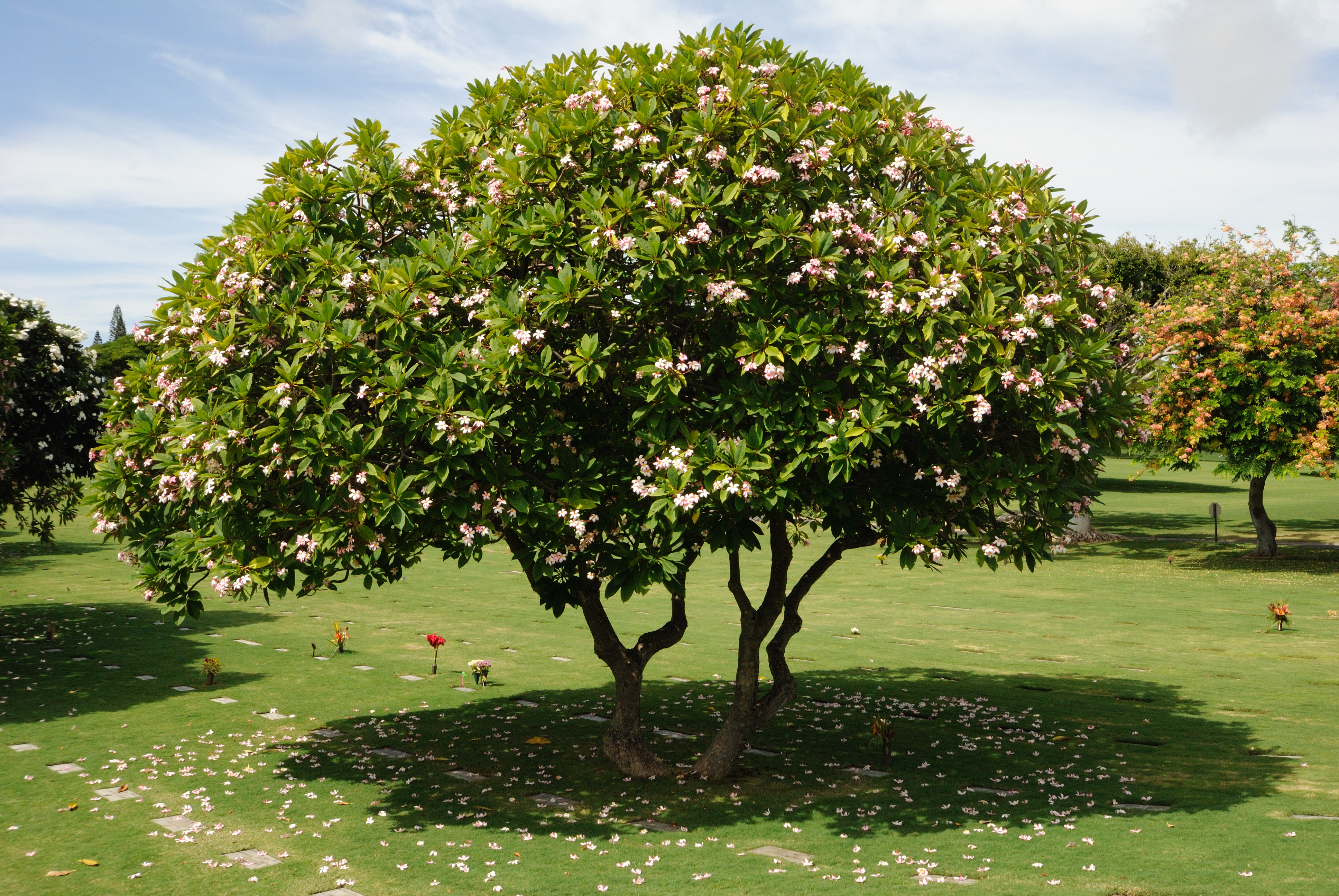 Just liked this blossoming plumeria tree near the entrance to Punchbowl Cemetery.